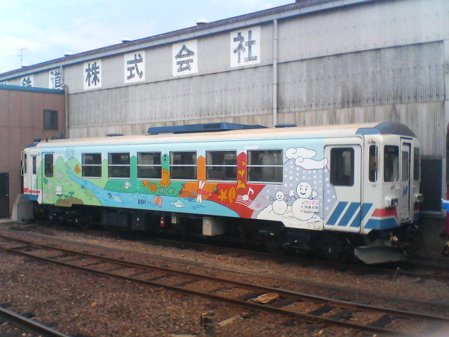 Nagaragawa railway Nagara-2 type diesel car